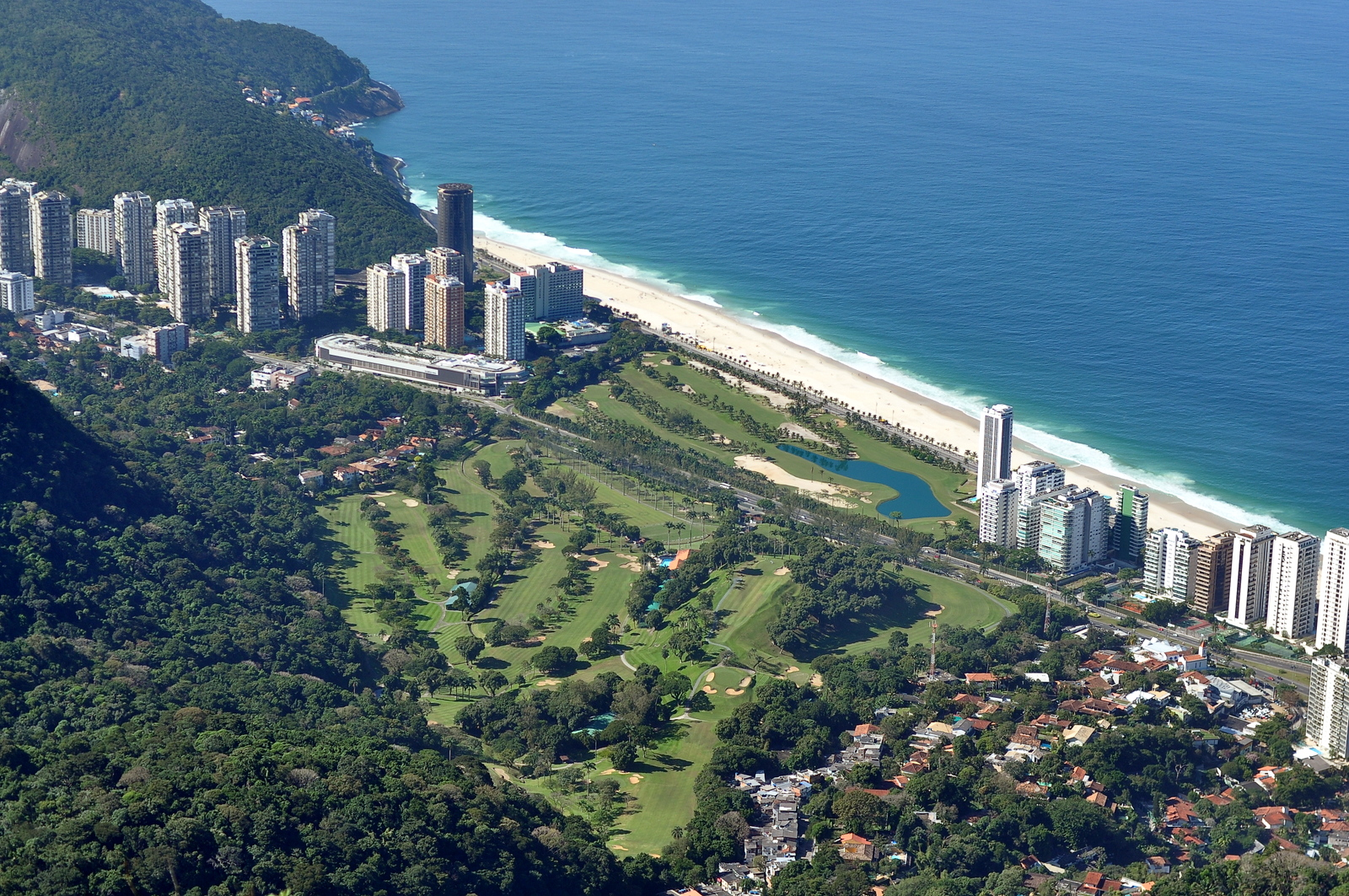 The Gavea Golf and Country Club, located in the neighborhood of São Conrado, in Rio de Janeiro, Brazil.